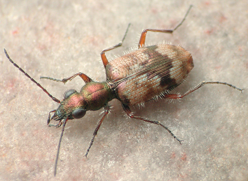 Lachnophorus elegantulus female, location: USA: New Mexico: Gila